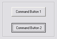 command button